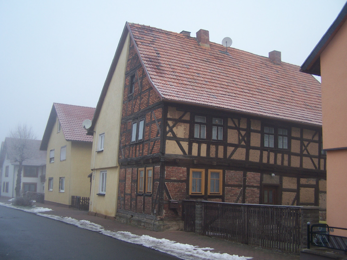 In Neuendorf village.